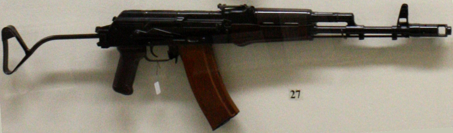 East German AKS-74 rifle variant